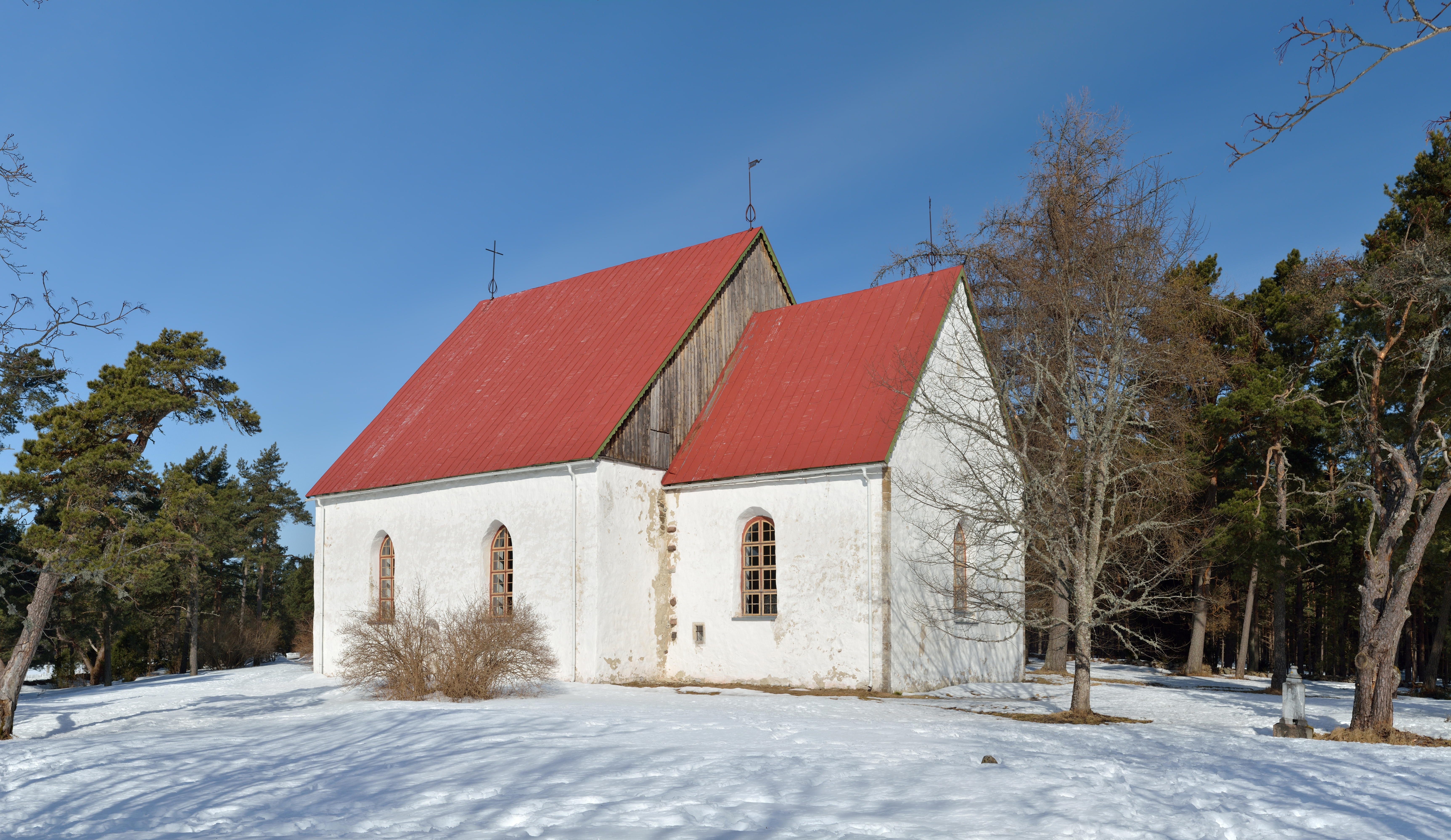 Vormsi St. Olaf's Church. Vormsi island, Estonia.